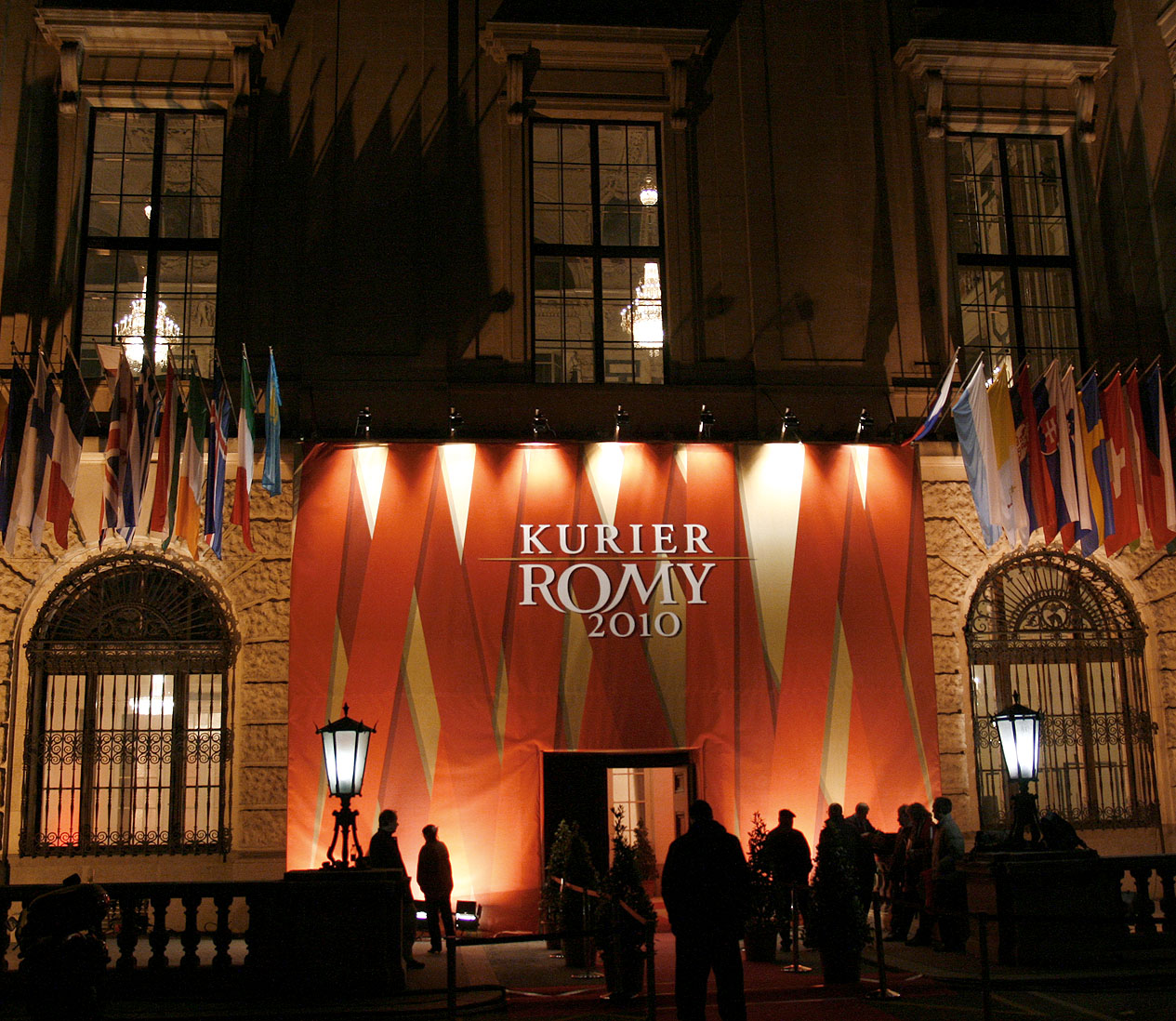 Romy TV awards (Hofburg Imperial Palace in Vienna)